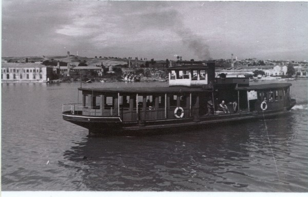 Haliç Ship no 13, belongs to Haliç Vapurları Company, founded in 1856 (Ottoman Empire)